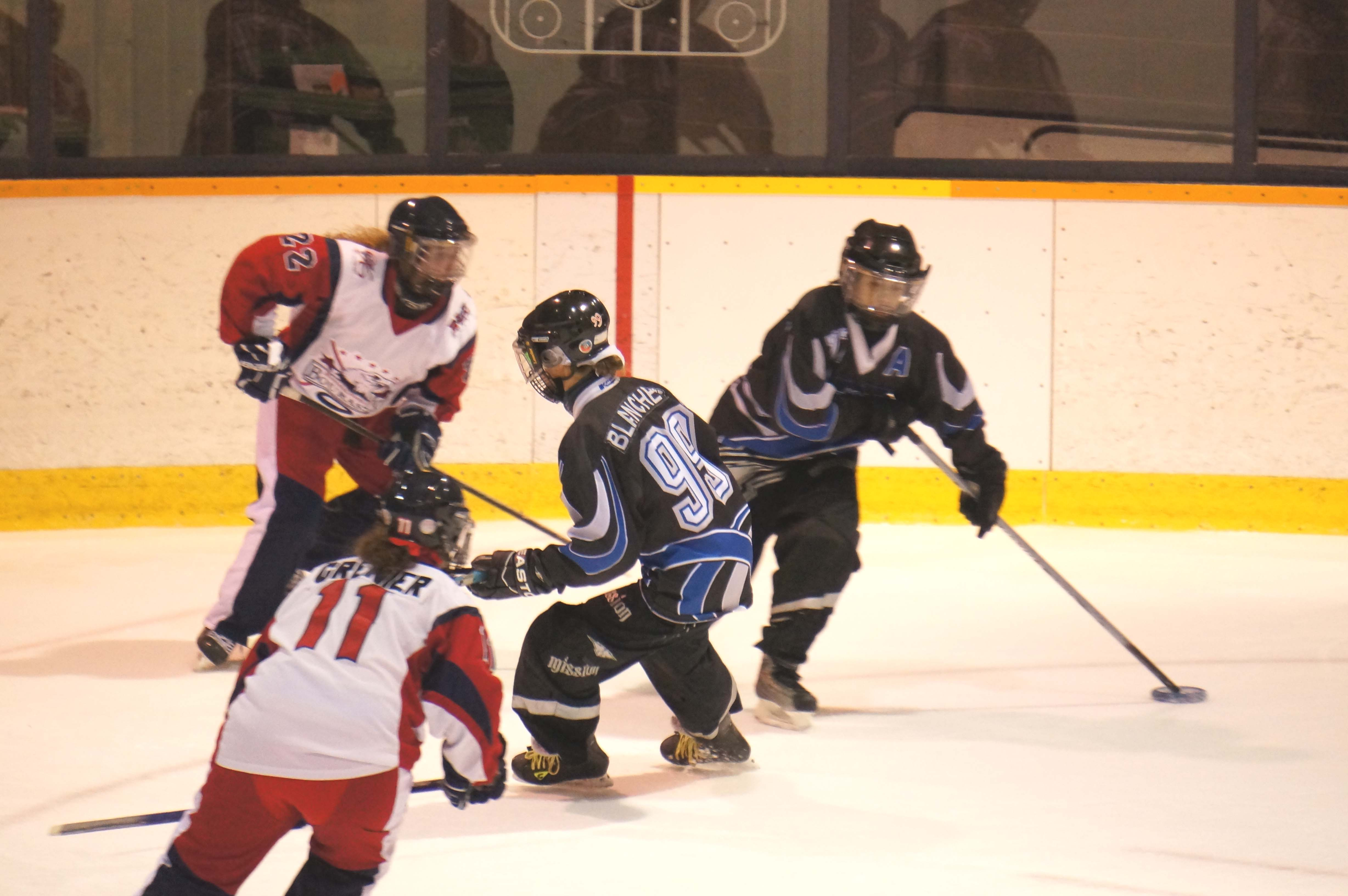 Ringette